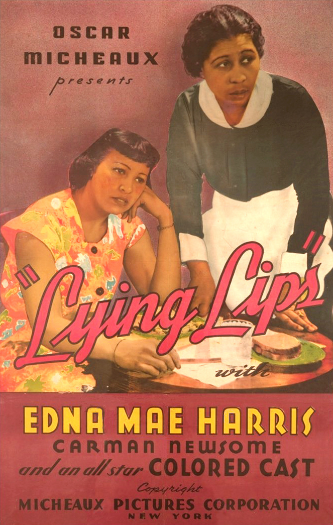 Publicity Poster for Lying Lips with Edna Mae Harris, American film directed by Oscar Micheaux